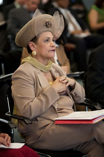 Rosa Rosales, the current National President of the League of United Latin American